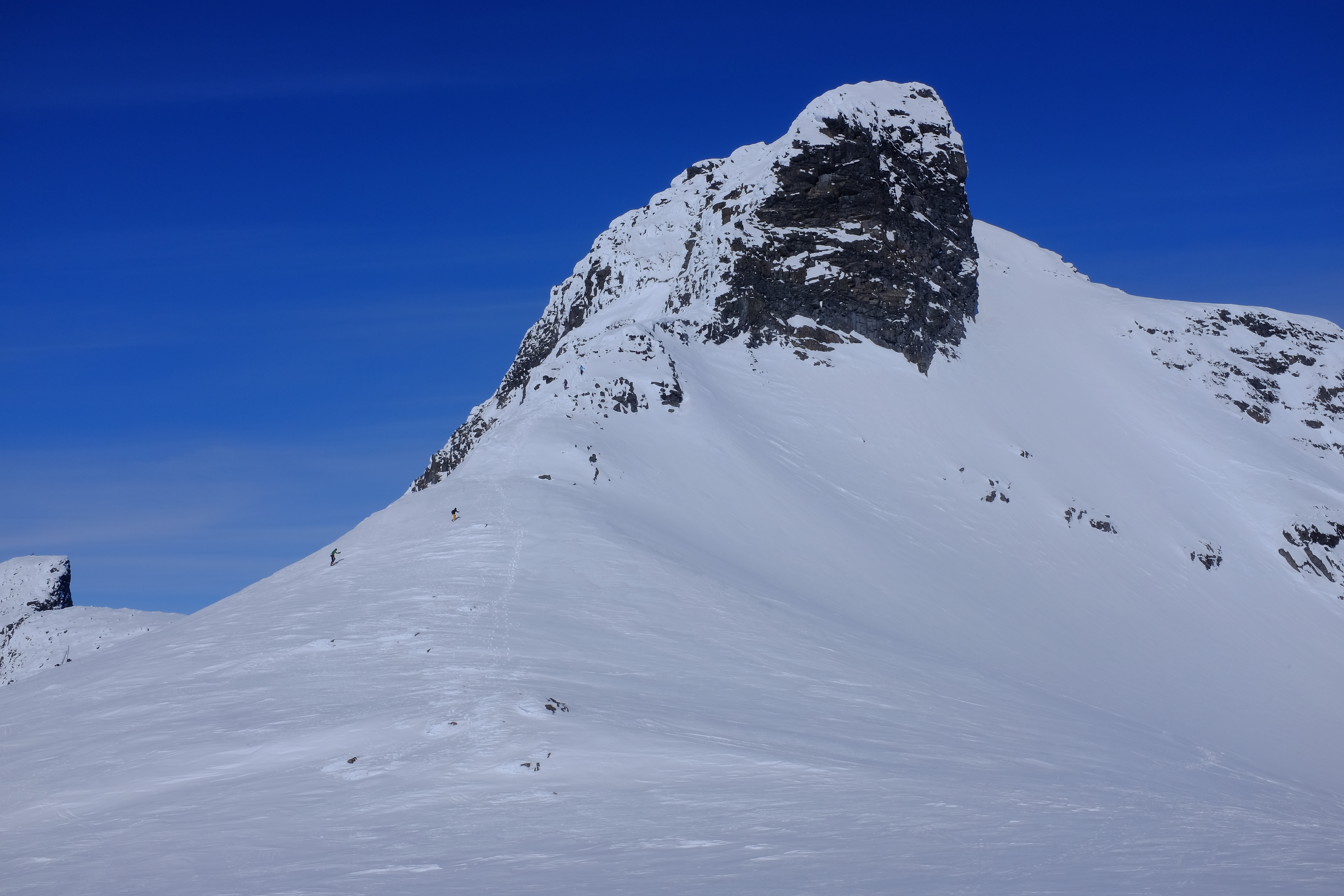 Sokse mountain in Jotunheimen Nasjonal Park, Lom, Oppland, Norway. Picture taken from Bjørneskardet mountain pass. "Sokse" literally means "the scissors". It is part of the mountain chain Smørstabbtindan.